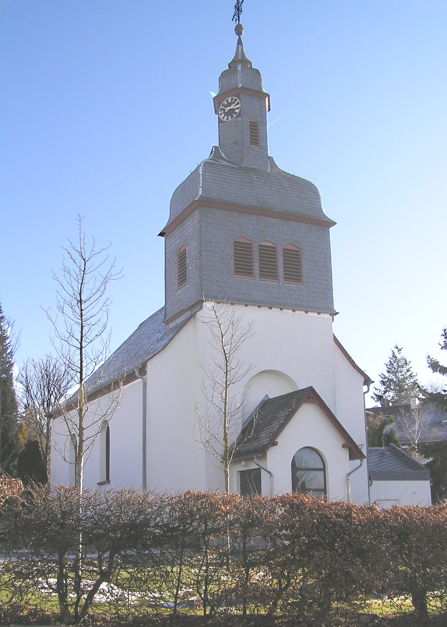 Church in Glashütten, Taunus, Germany